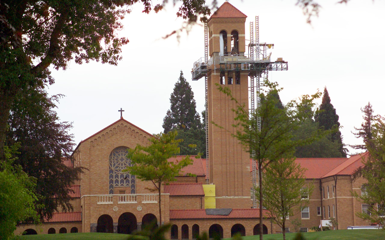 Mount Angel Abbey, Oregon, USA.